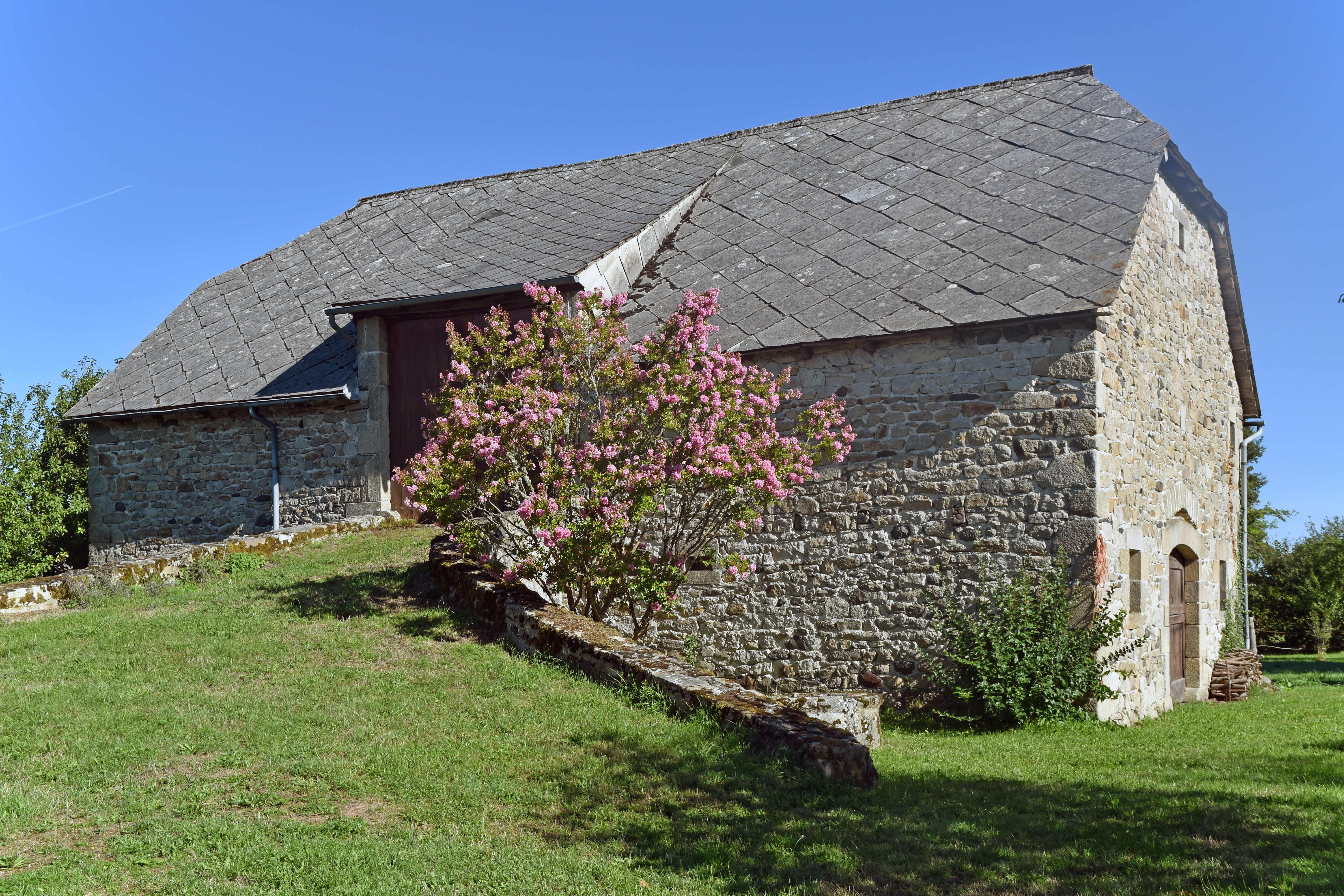 Anncient barn in Bassignac le haut, Corrèze, France